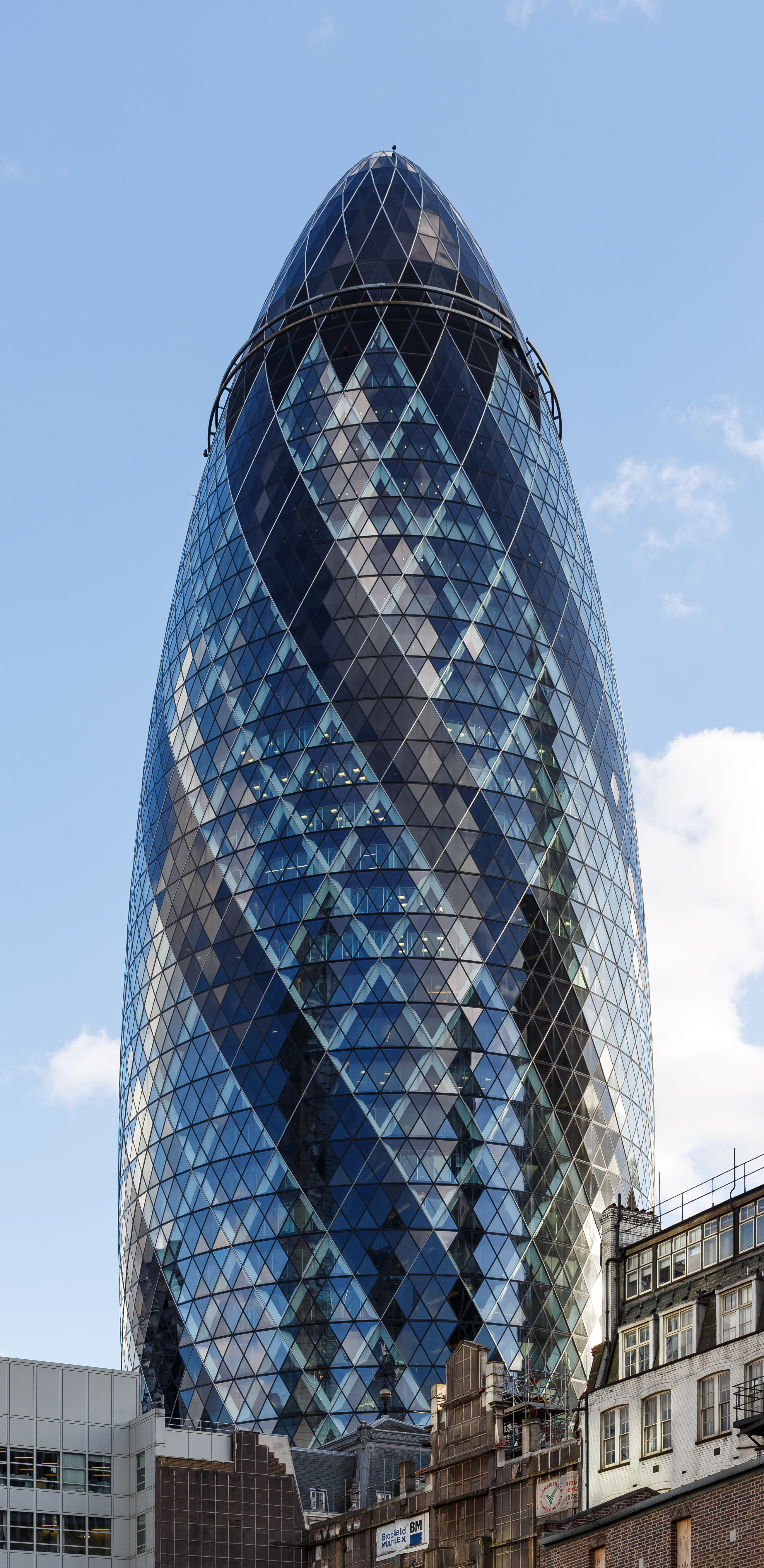 London, UK: The 30 St Mary Axe office building-skyscraper, popularly known as the Gherkin. Seen from 99 Bishopsgate